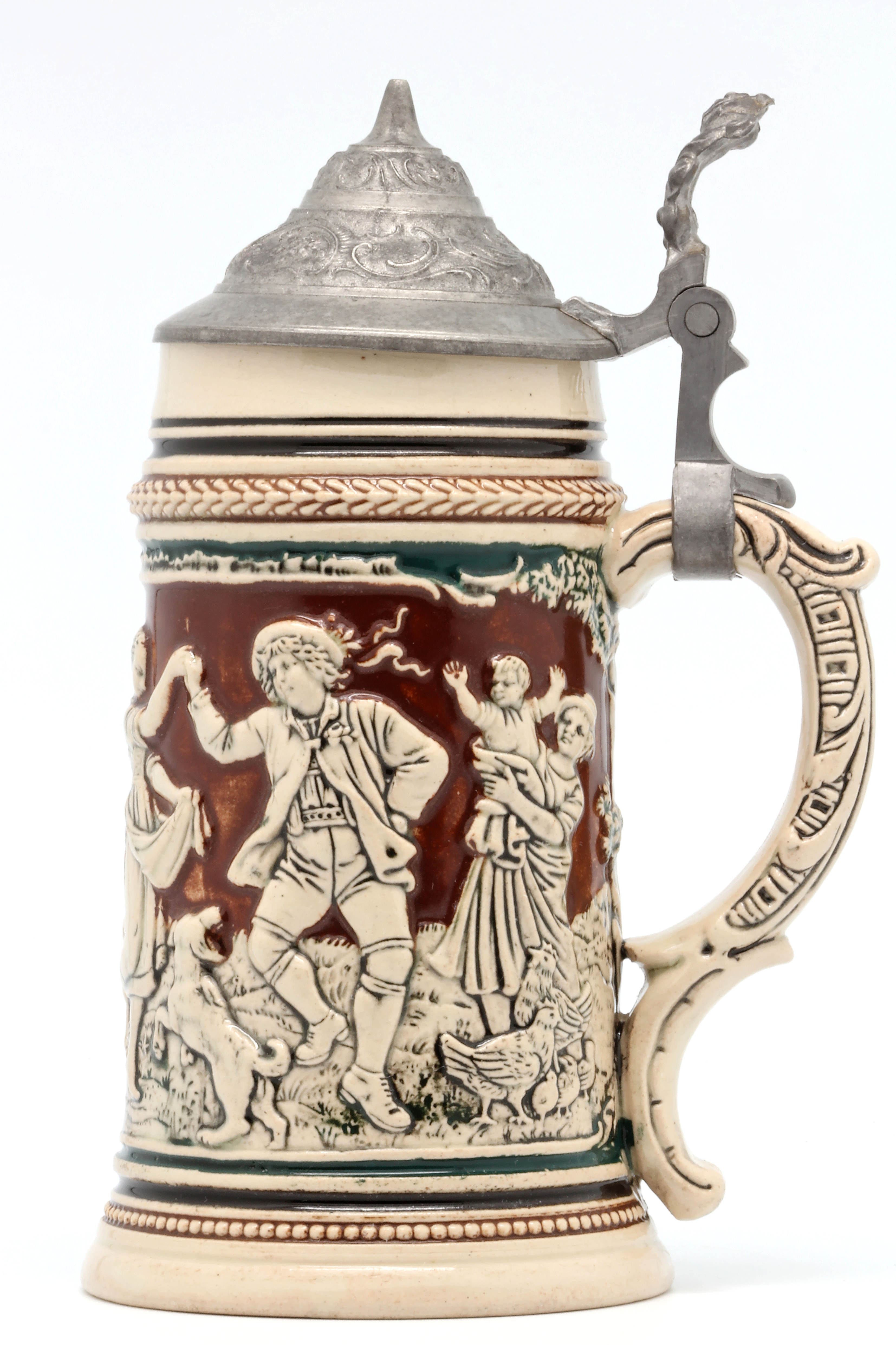 Faience beer stein with ball scene on brown background